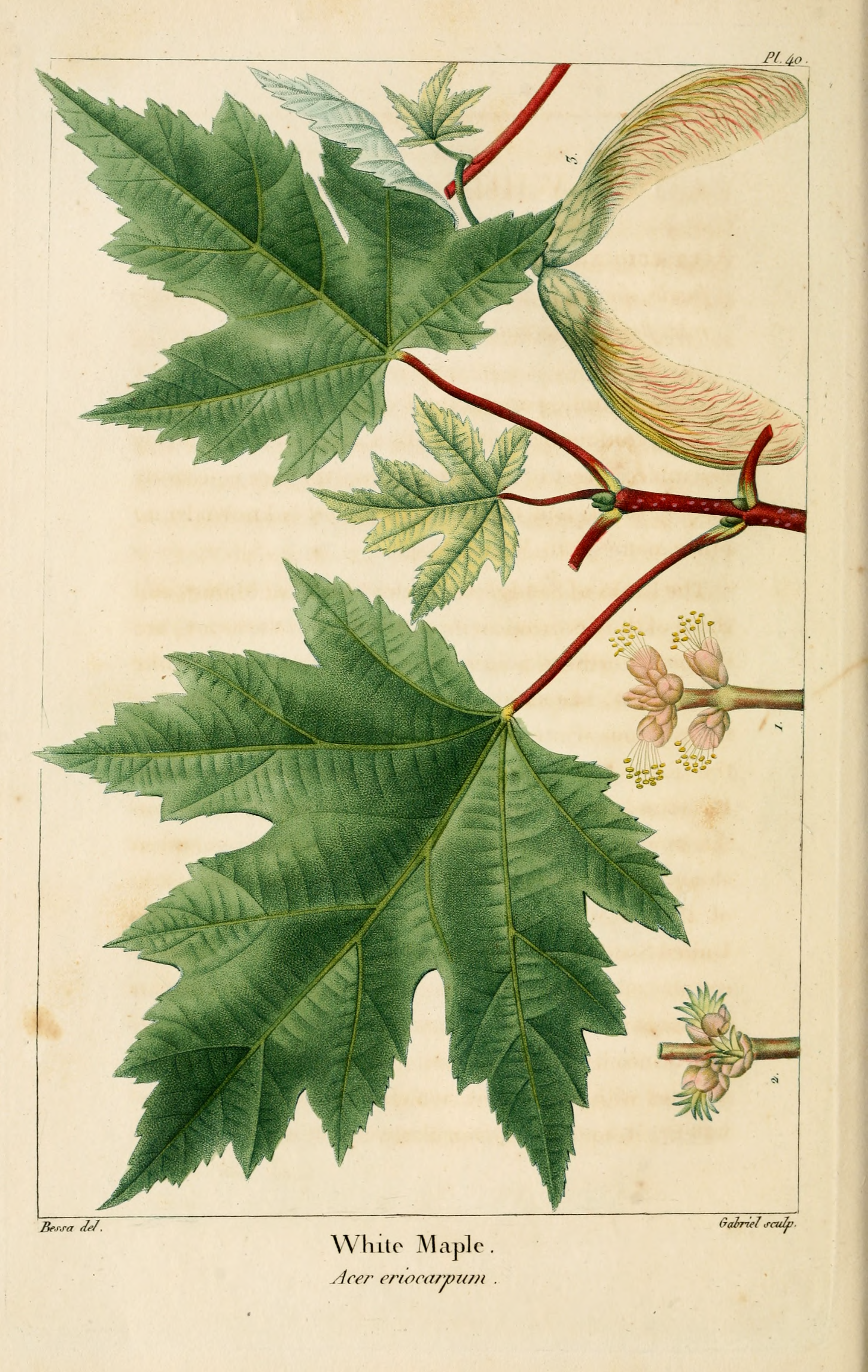 Plate 40 from The North American Sylva: Acer saccharinum. (Original caption: White Maple. Acer eriocarpum.)